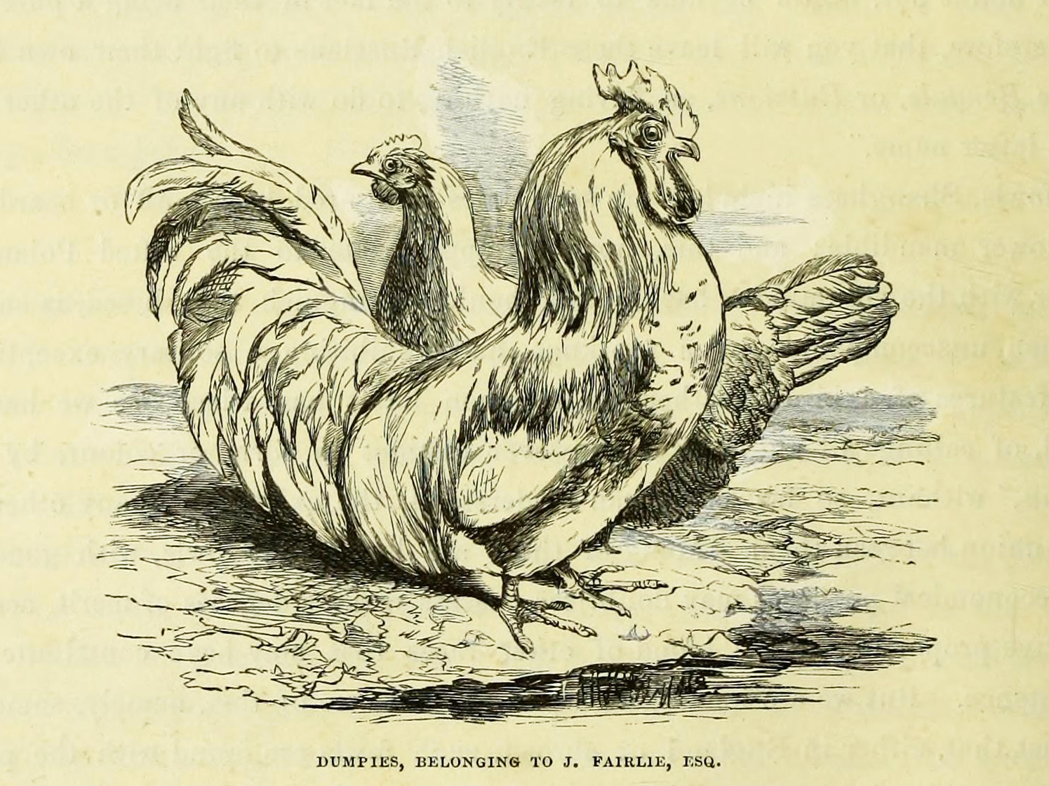 Scots Dumpies at the Metropolitan Poultry Show in Baker Street, London, Christmas 1852; wood engraving from: William Wingfield, George William Johnson, Harrison Weir (illustrator) (1853). The Poultry Book: comprising the characteristics, management, breeding and medical treatment of Poultry. London: Wm. S. Orr and Co, page 222